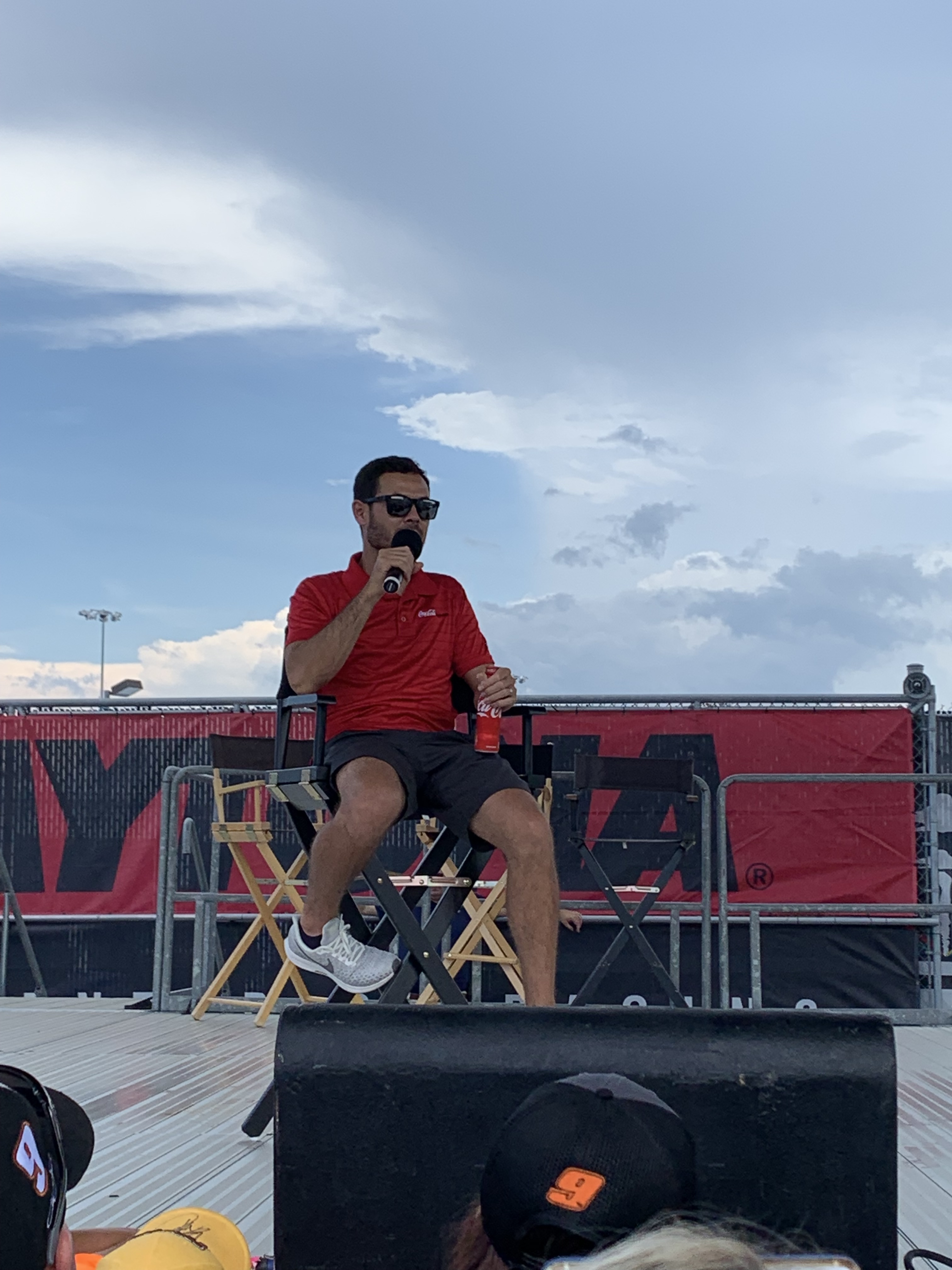 refer to caption